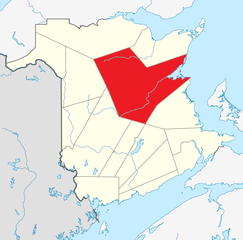 Map of New Brunswick highlighting Northumberland County